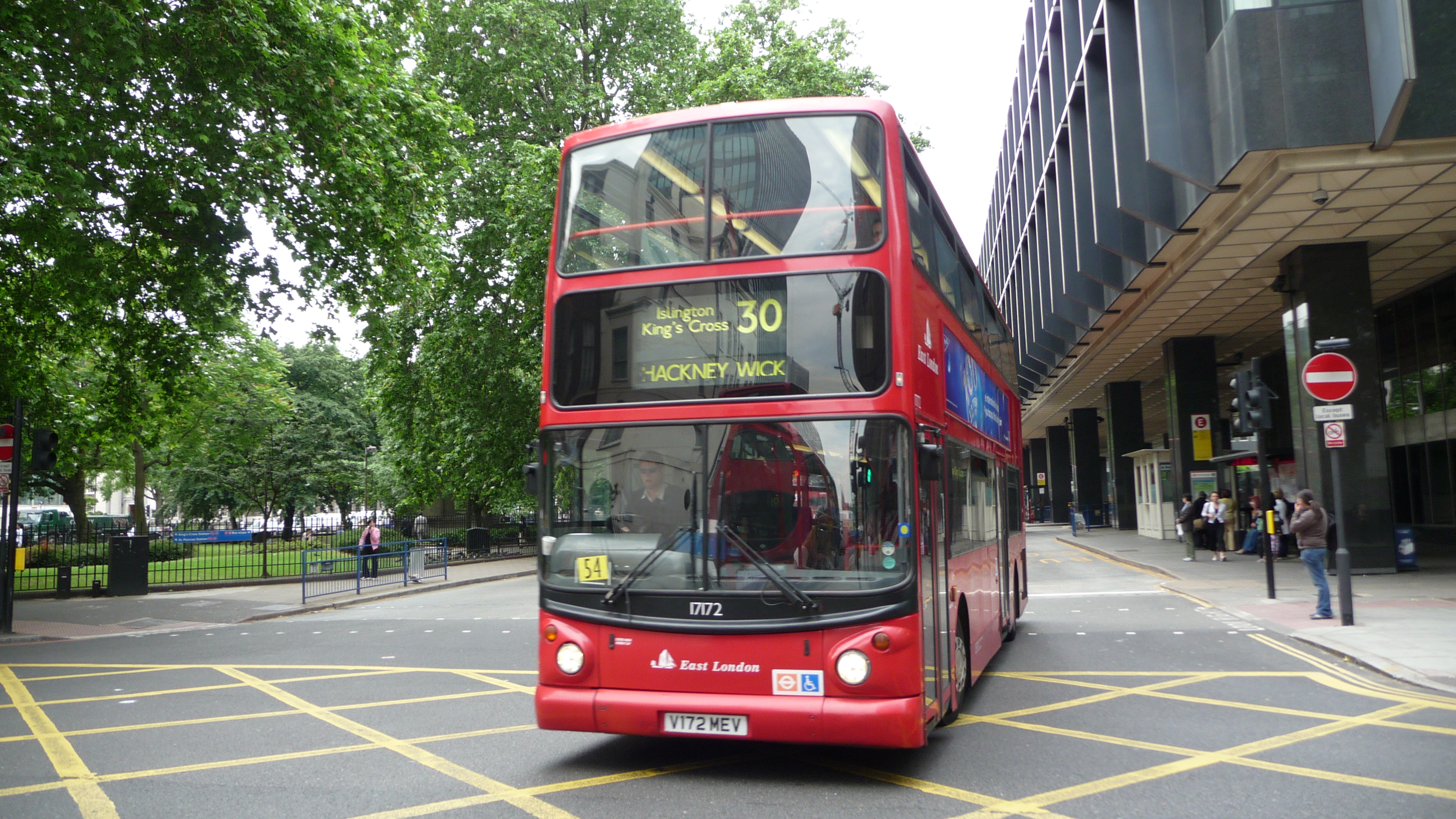 East London 17172 (V172 MEV), a Dennis Trident/Alexander ALX400, at Euston.